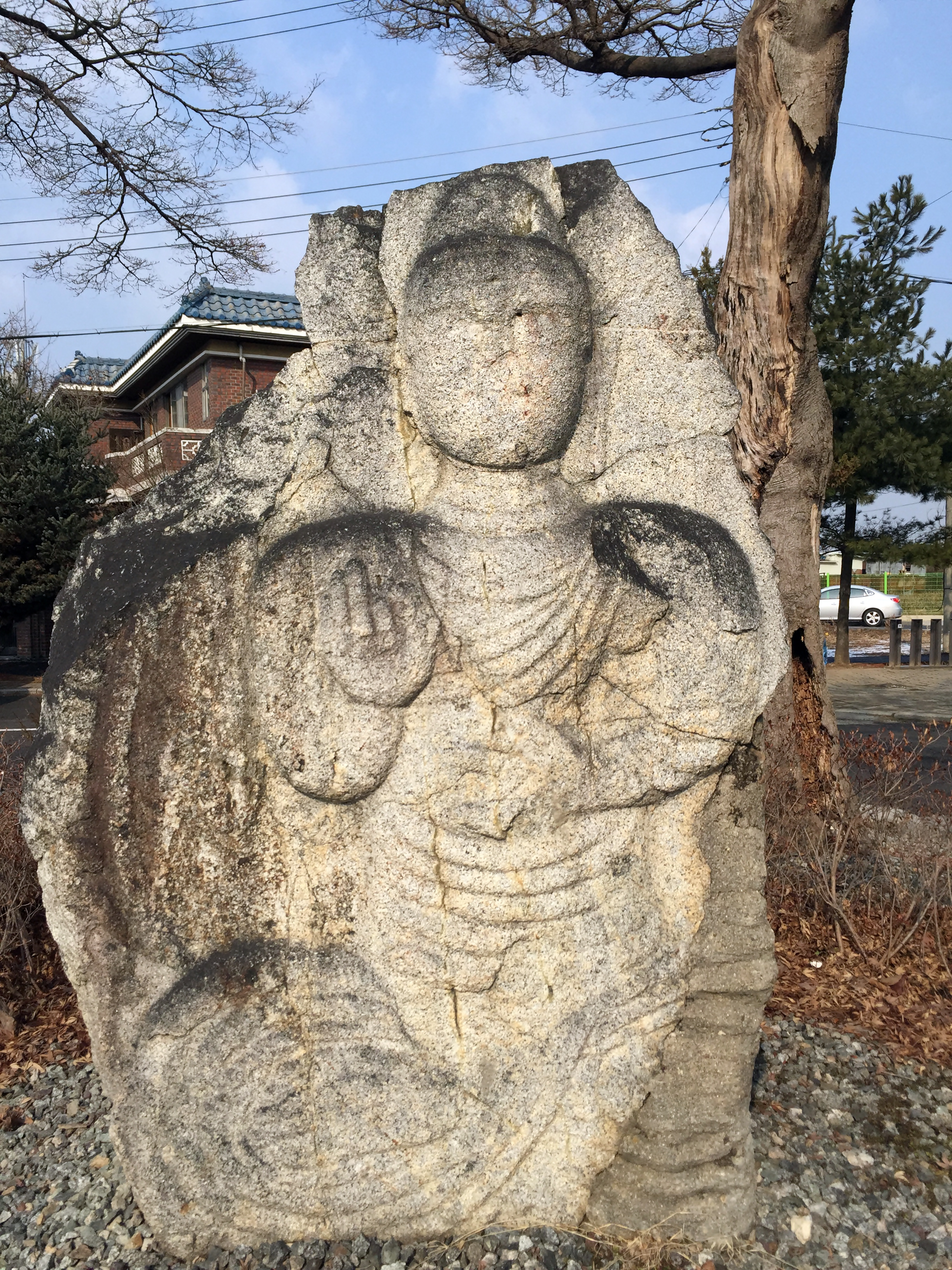 Stone Seated Buddha at Yuchon-dong, Gwangju in South Korea